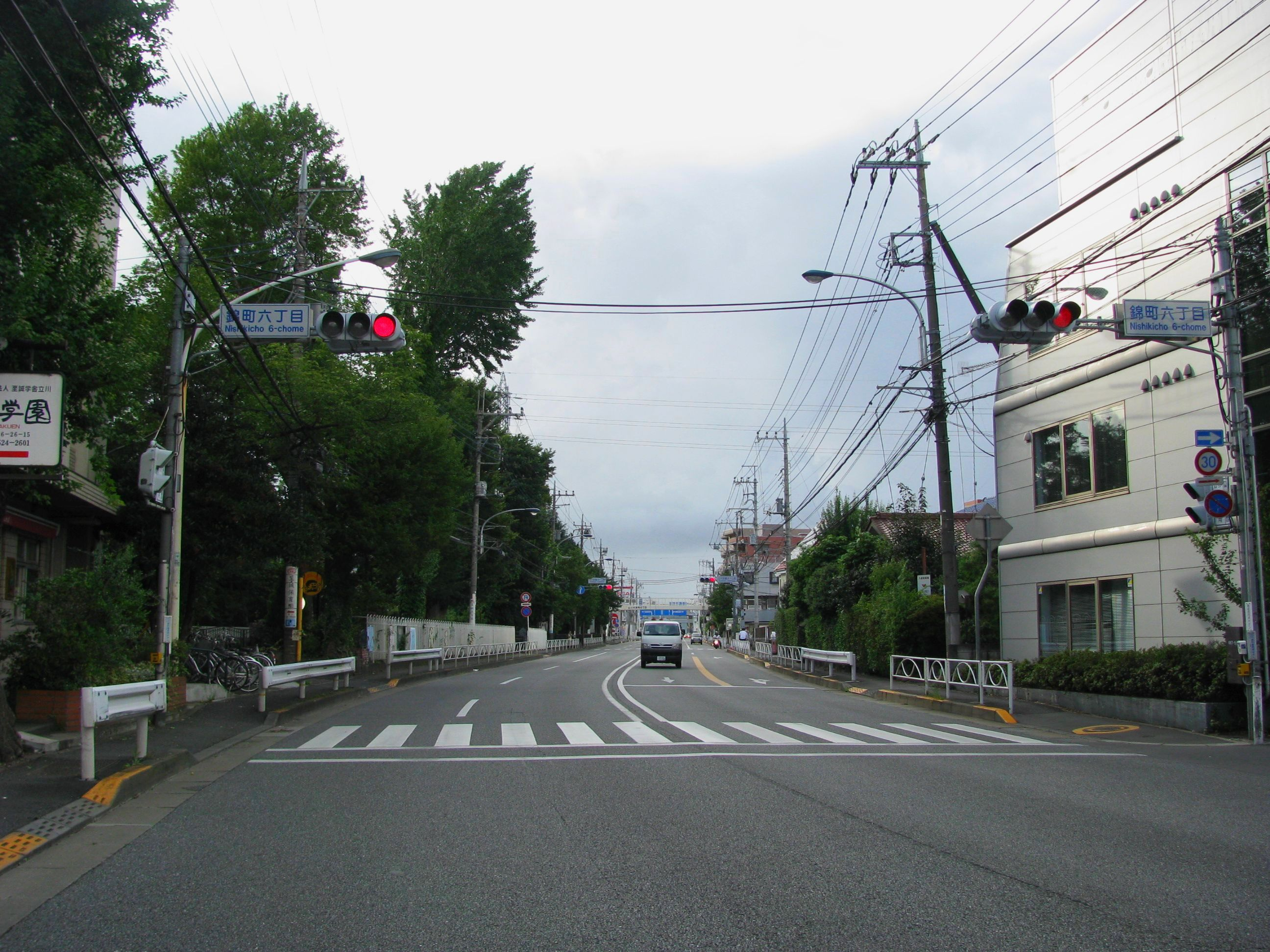 The Tokyo Prefectural Route 256. This location is Nishikichō in Tachikawa, Tokyo, Japan.